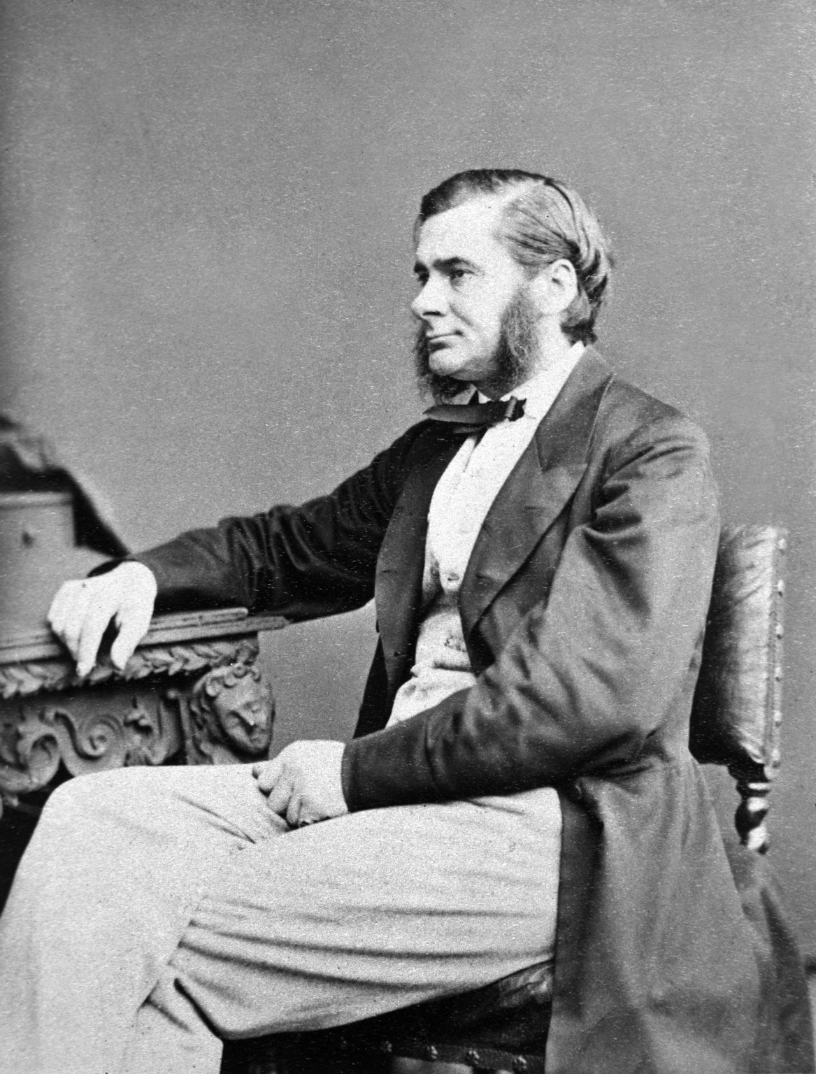 Portrait of Thomas Henry Huxley (1825—1895).